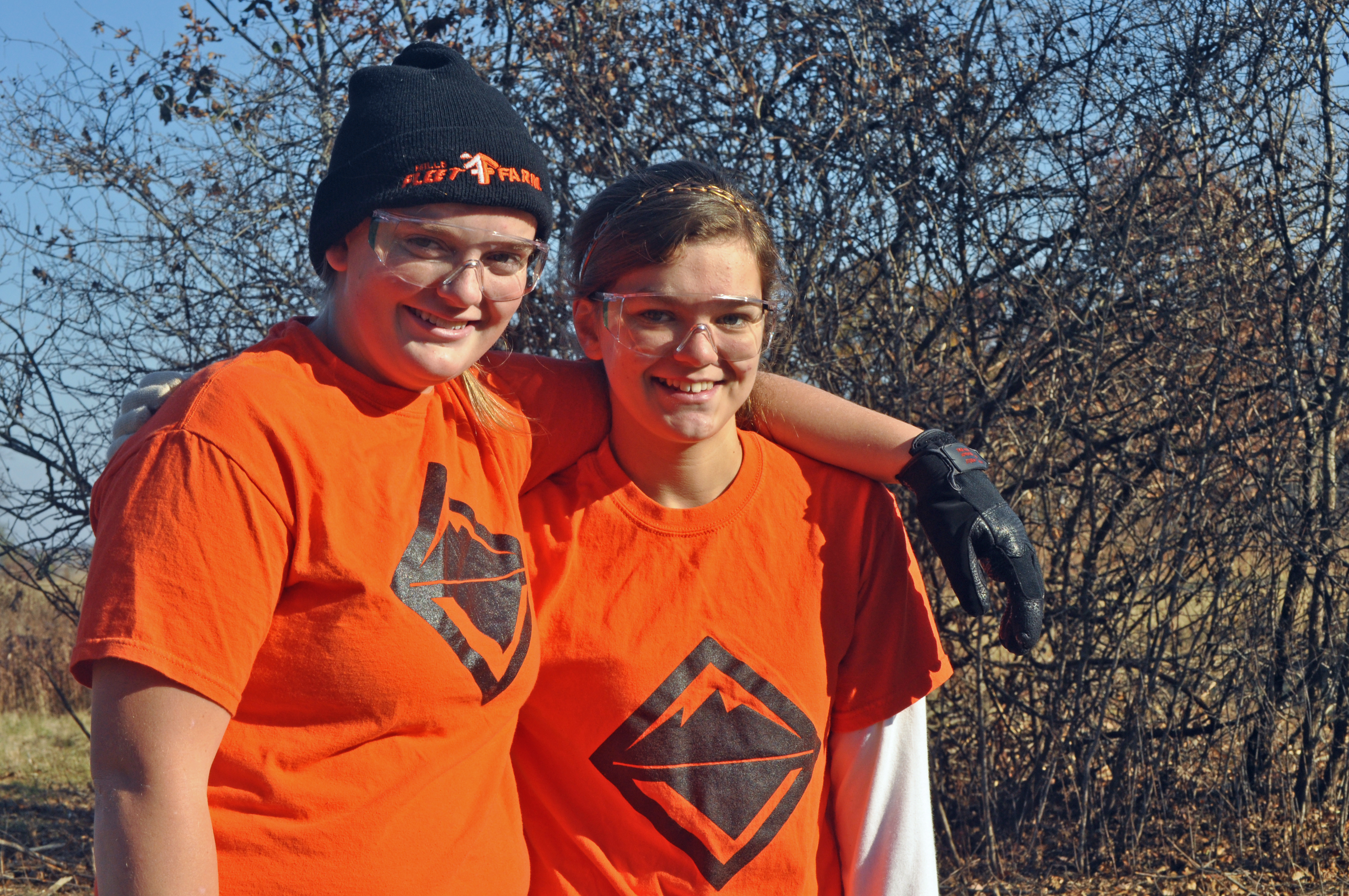 Learn more about Venturing! Photo by Tina Shaw/USFWS.